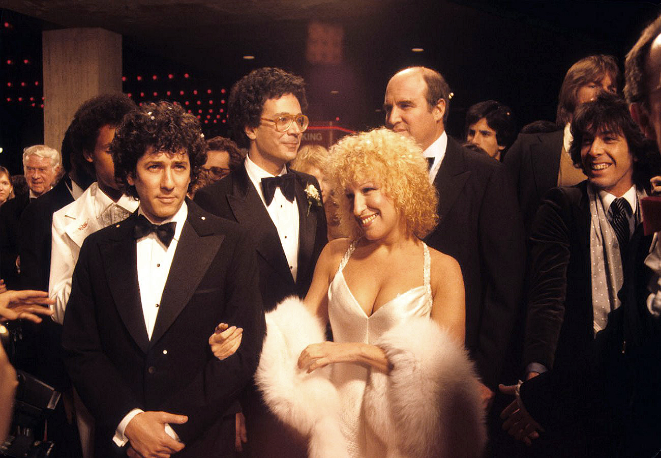 Bette Midler and date Peter Riegert arrive at the premiere of Midler's movie, THE ROSE, 1979